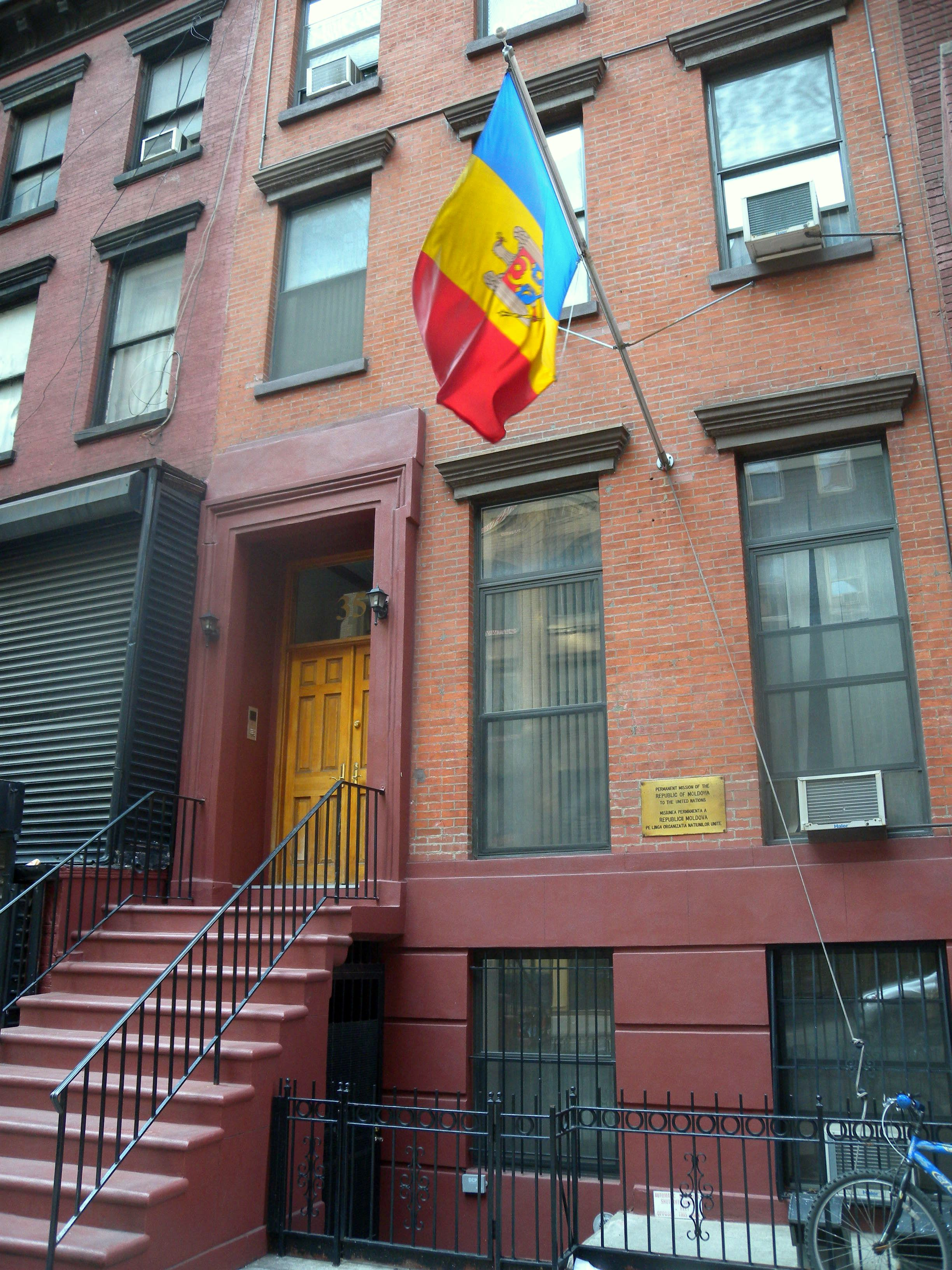 Looking north at Moldava Mission to the United Nations on a cloudy day.